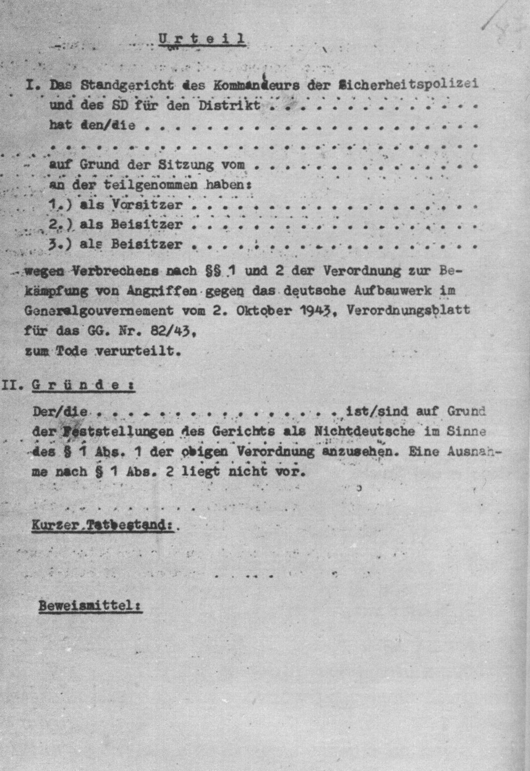 First page of death sentence blank, used by special security police court martial (Standegricht) during the Nazi-German occupation of Poland.